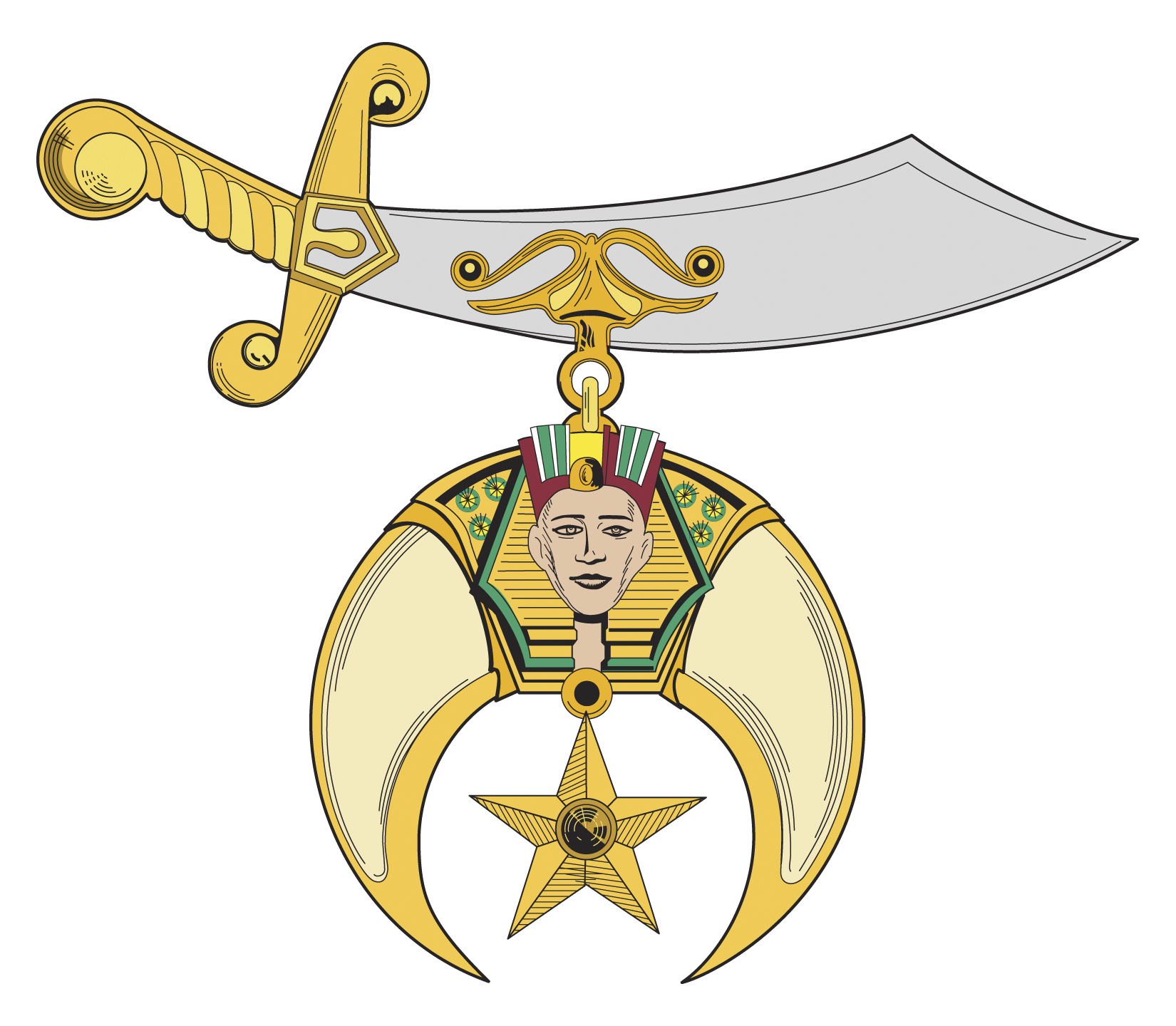 The shrine